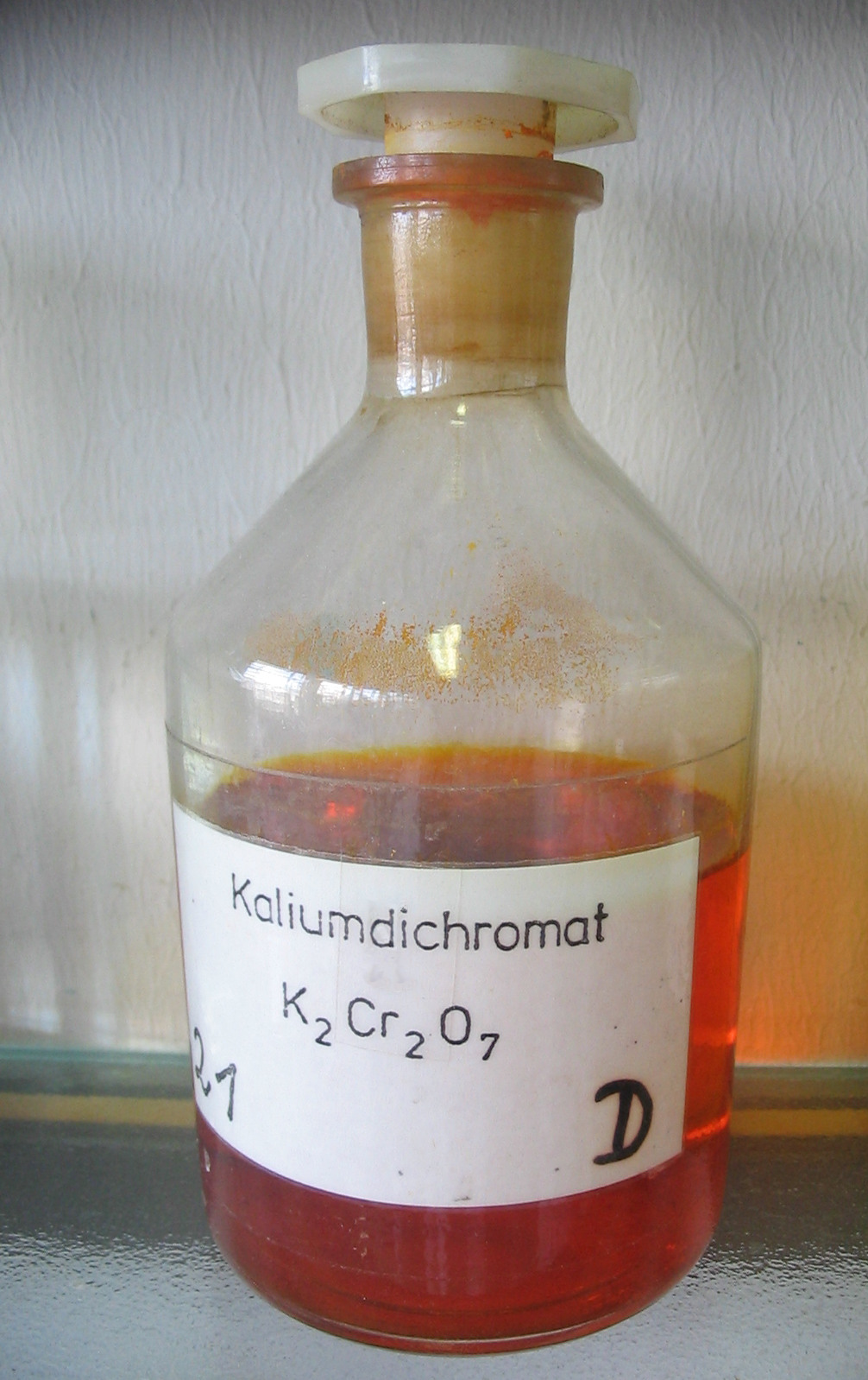 Kaliumdichromat K2Cr2O4